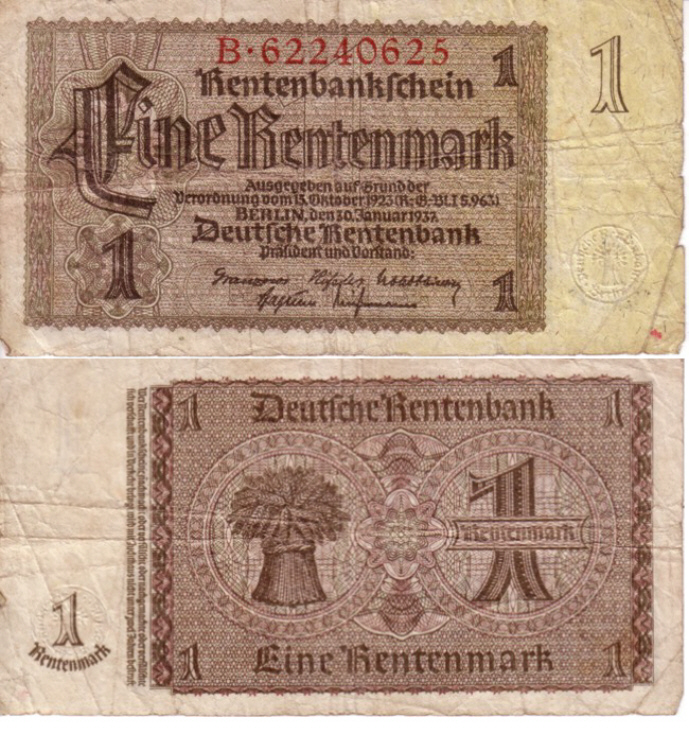 1 Rentenmark from 1937-1-30, the value is equal to 1 Reichsmark (coin)